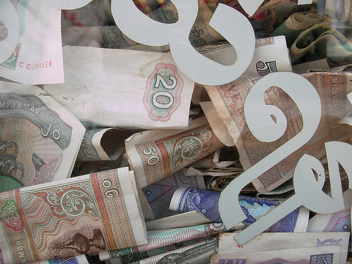 Kyat in the donation box